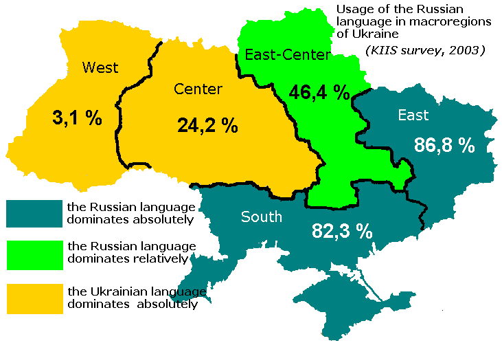 The Usage of the Russian language, a map with the English legenda